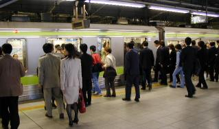 Yamanote line train, Tokyo.